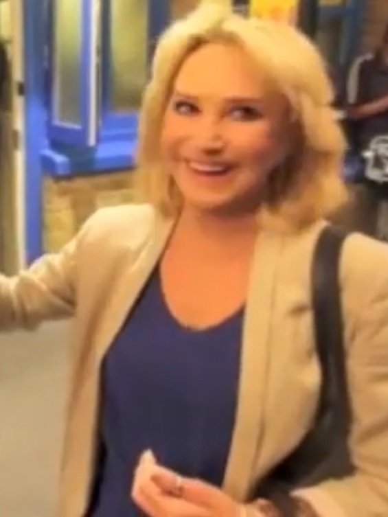 English actress Felicity Kendal.